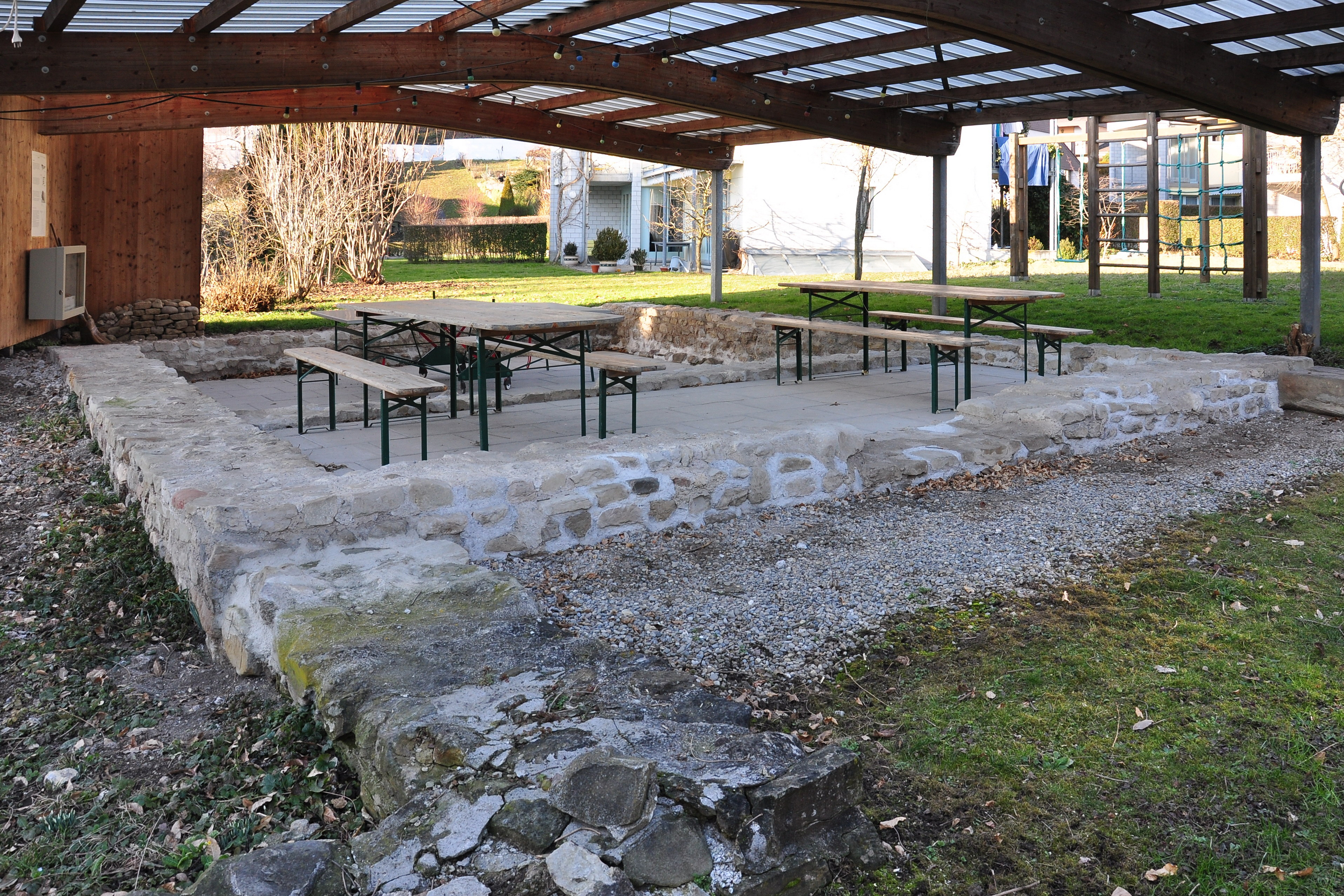 Römerwiese site (remains of a probably commercial building) of the Roman vicus Centum Prata at Kempraten respectively Rapperswil (Switzerland)